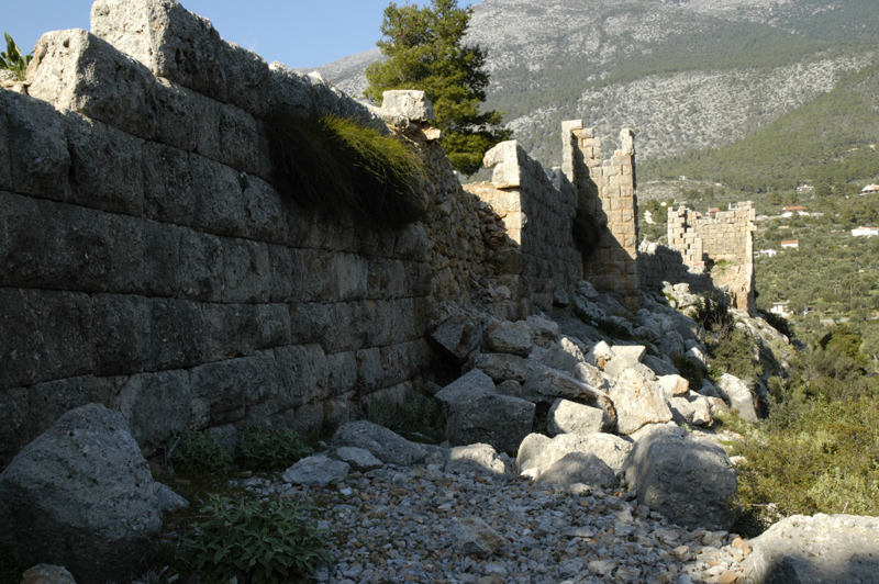 J. M. Harrington, personal digital image